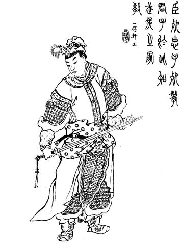 Qing dynasty illustration of Zhuge Shang